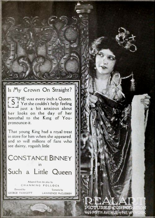 Ad for the American film Such a Little Queen (1921) with Constance Binney, on the inside front cover of the June 12, 1921 Film Daily.